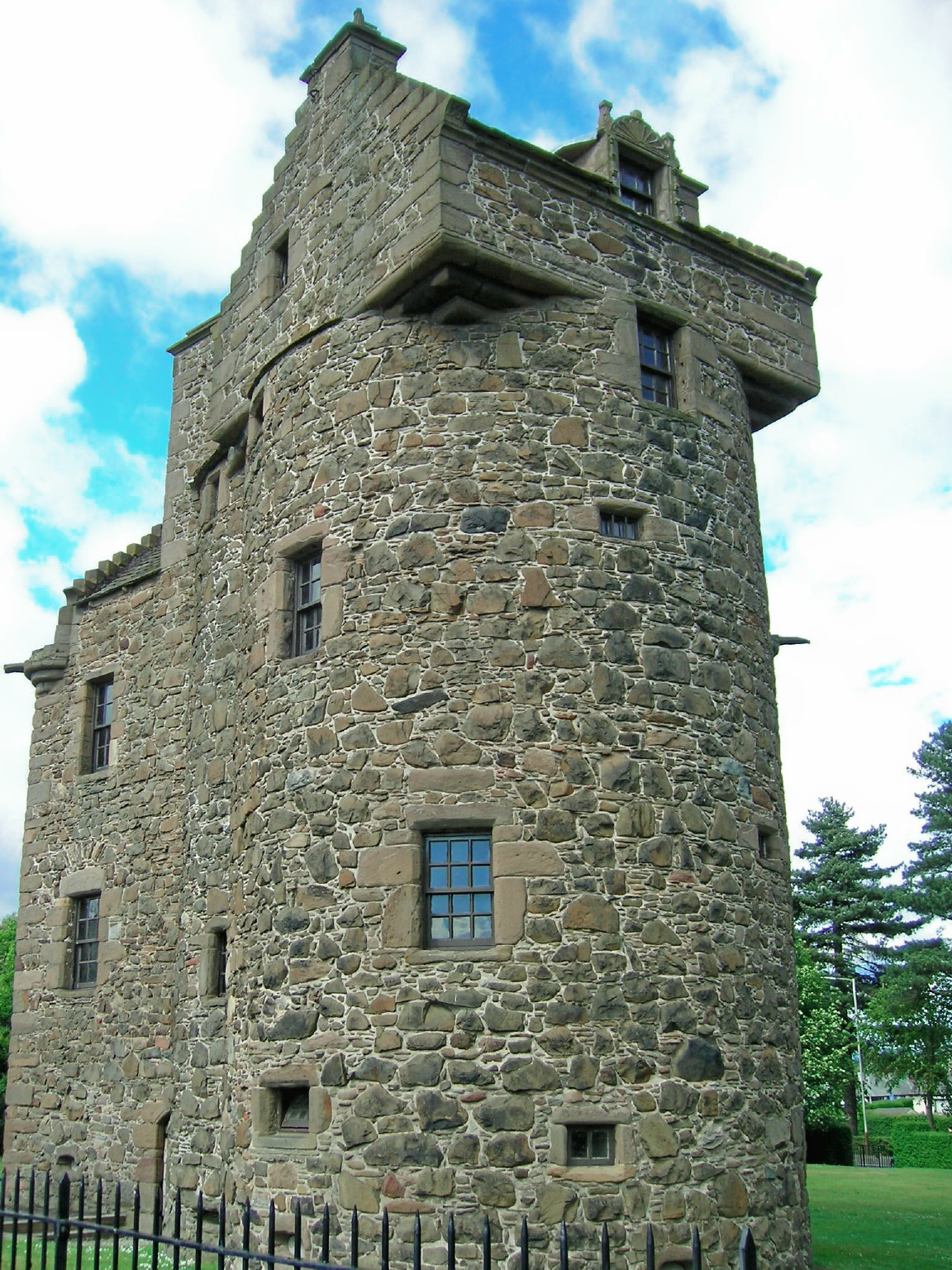 Claypotts Castle, Dundee, UK